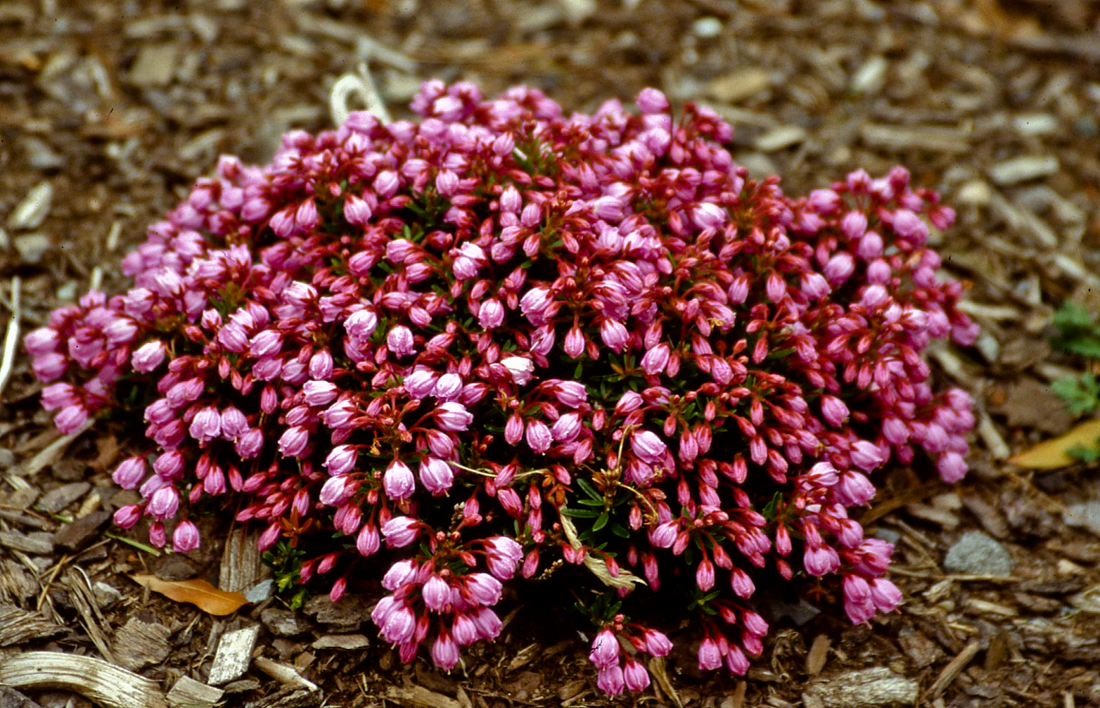 Phylliopsis 'Sugar Plum' is an intergeneric cross between Phyllodoce caerulea and Kalmiopsis leachiana.